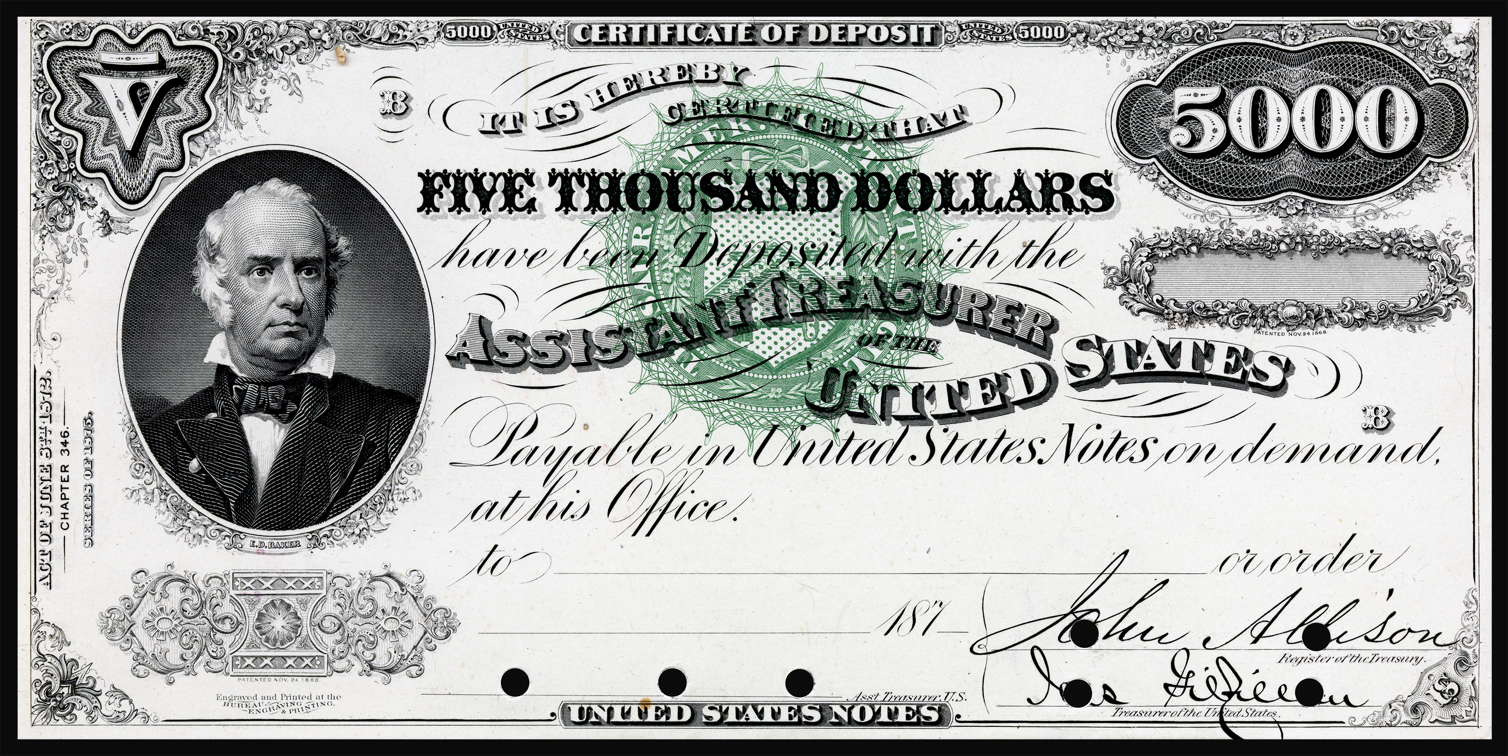 US-$5000-Certificate of Deposit-1875 (Proof)